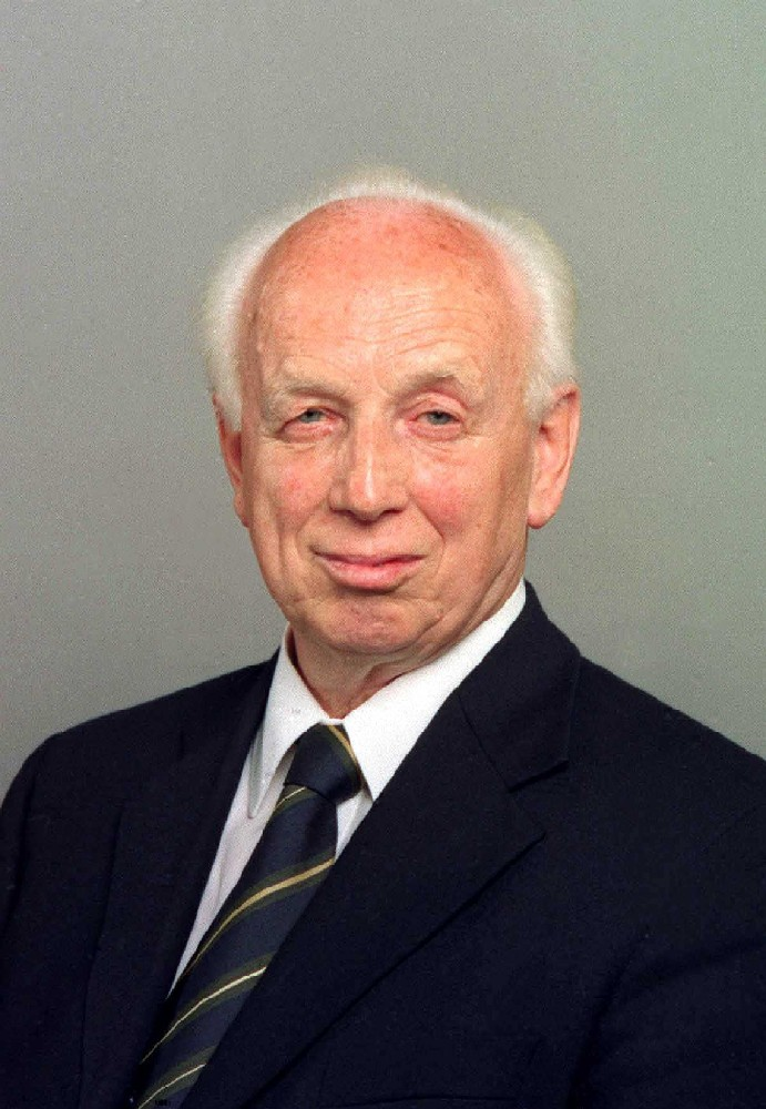 Ferenc Mádl (DSc) jurist, former President of Hungary, member of the Hungarian Academy of Sciences